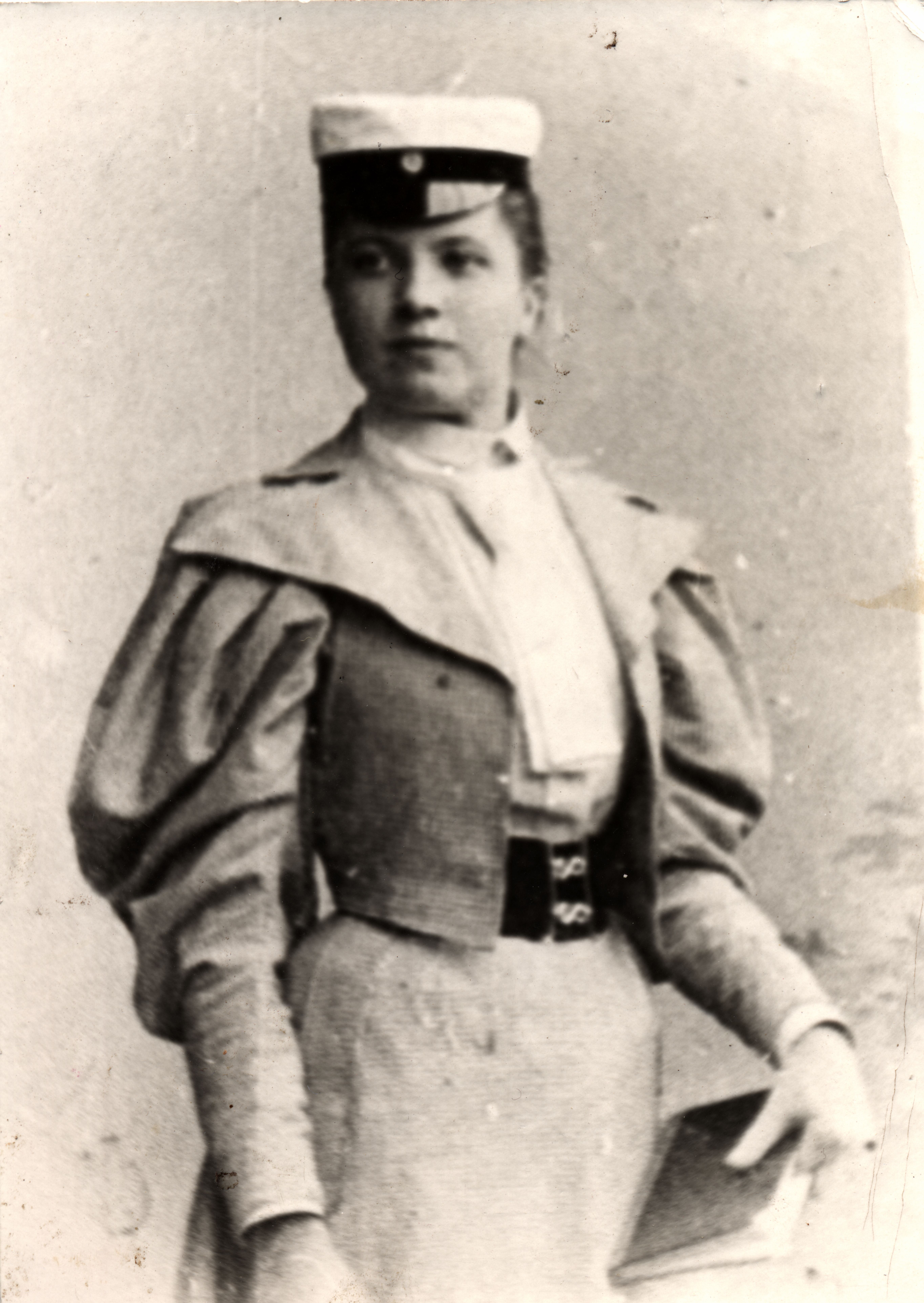 Hanna Lindberg as a student.